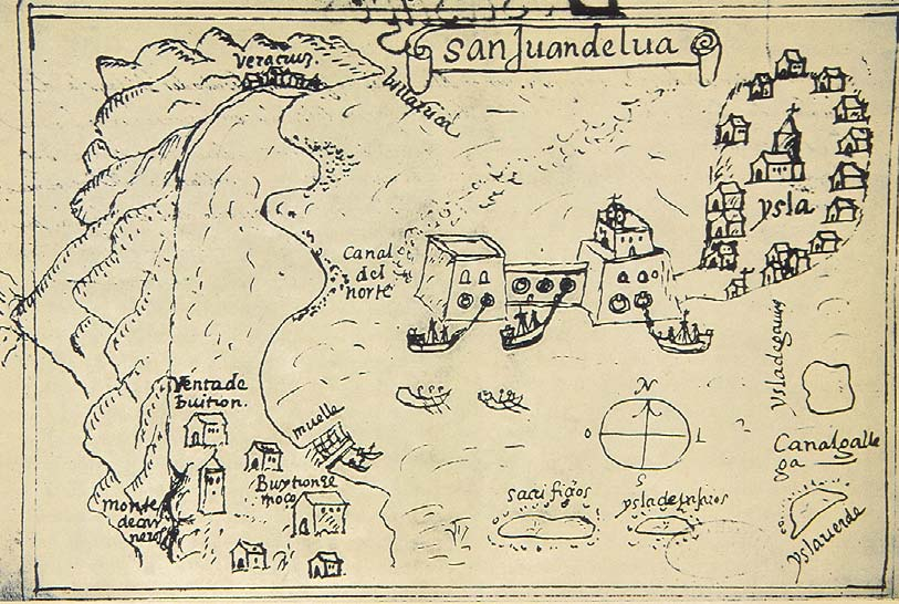 Old map of Veracruz, State of Veracruz, Mexico.